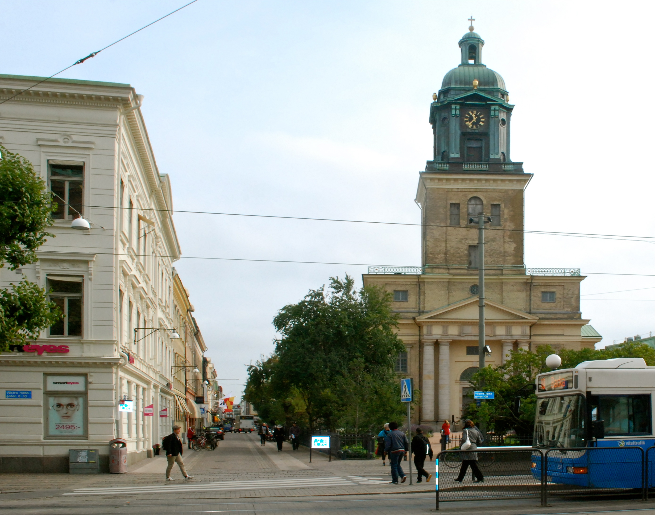 Kyrkogatan and Västra Hamngatan 10, Göteborg.